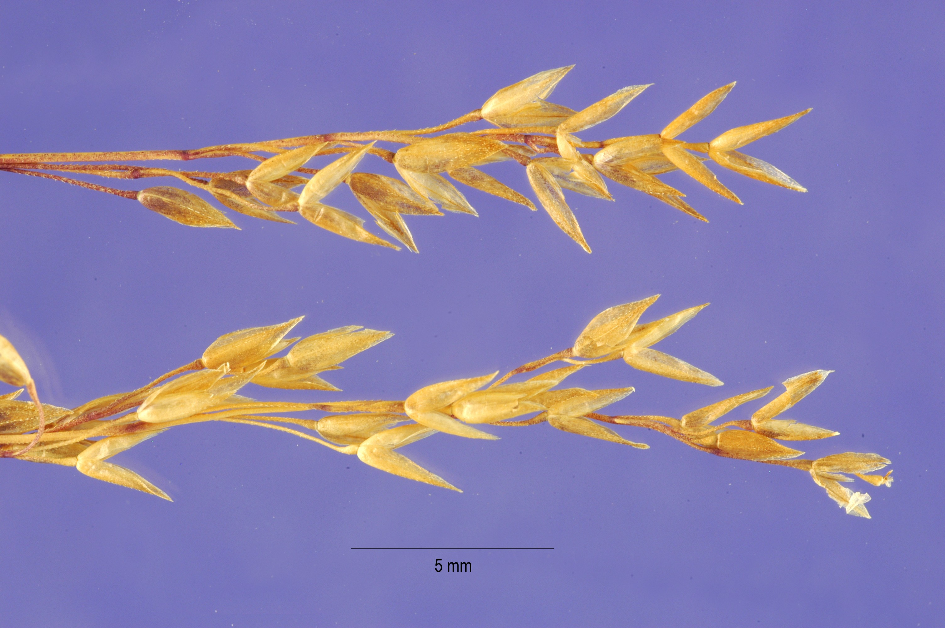 Agrostis blasdalei syn A. breviculmis from Jose Hernandez. Provided by ARS Systematic Botany and Mycology Laboratory. Argentina